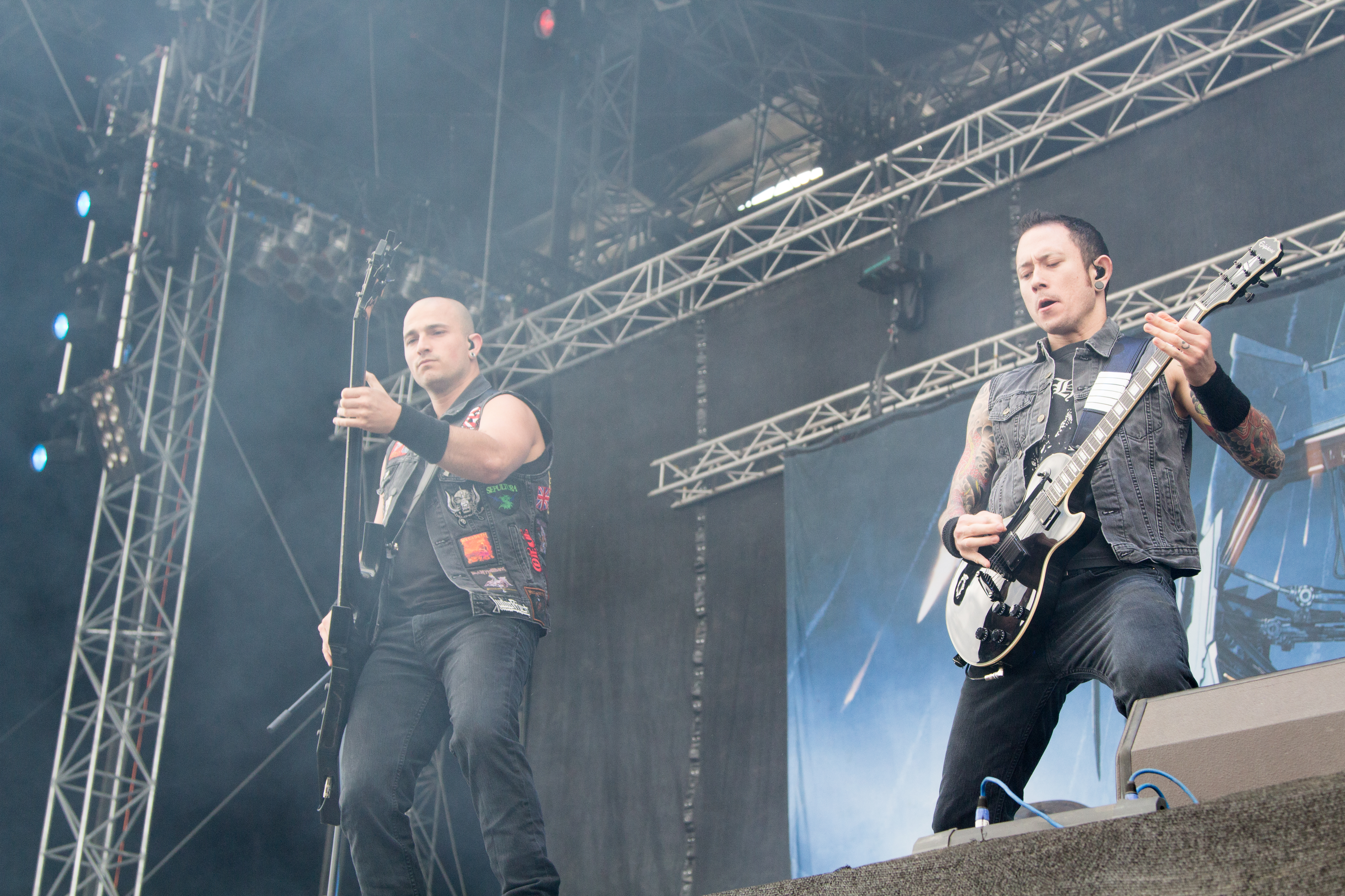 Corey Beaulieu and Paolo Gregoletto from Trivium at Nova Rock 2014